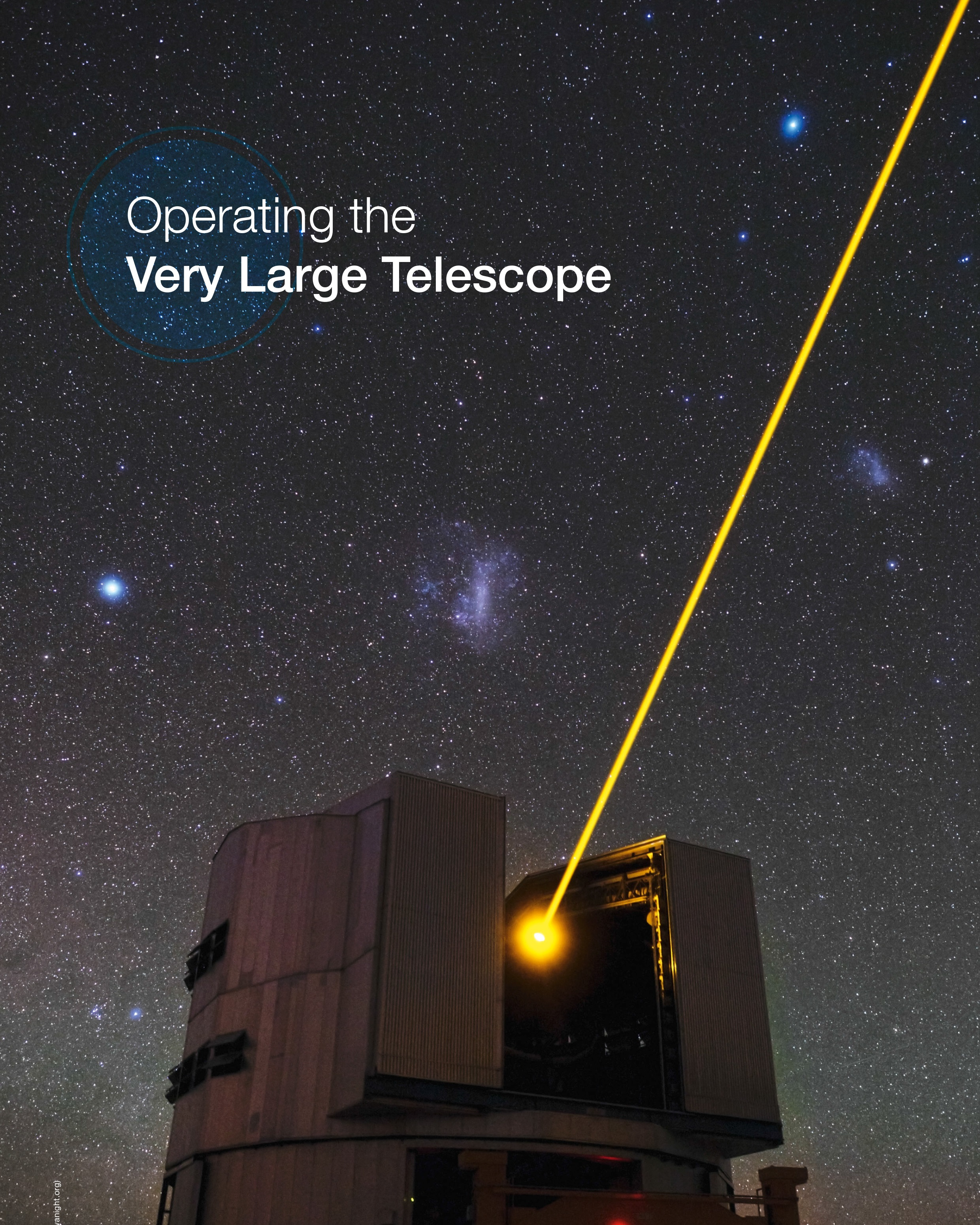 Operating a complex facility like the VLT and making sure that it is able to fulfil its enormous potential is not an easy task. Its carefully designed operations scheme, which involves specialised groups of scientists and engineers both in Chile and in Europe, is an essential component in the continued success of the VLT.